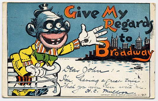 A postcard from 1905. Cartoon depicts a stereotypical caricature of a black-faced person gesturing to the New York City skyline from the back of a ship or ferry, with the caption beign the title of the hit George M. Cohen song of 1904, "Give My Regards to Broadway".